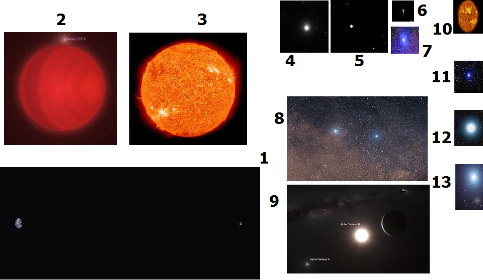 These are examples of 13 things which are in the Gigameter group. 1.Distance from Earth to Moon. 2.Gliese 229A 3.The Sun 4.Sirius 5.Altair 6.Arcturus 7.Polaris 8.Alpha Centauri A 9.Alpha Centauri B 10.Aldebaran 11.Vega 12.Capella 13.Regulus